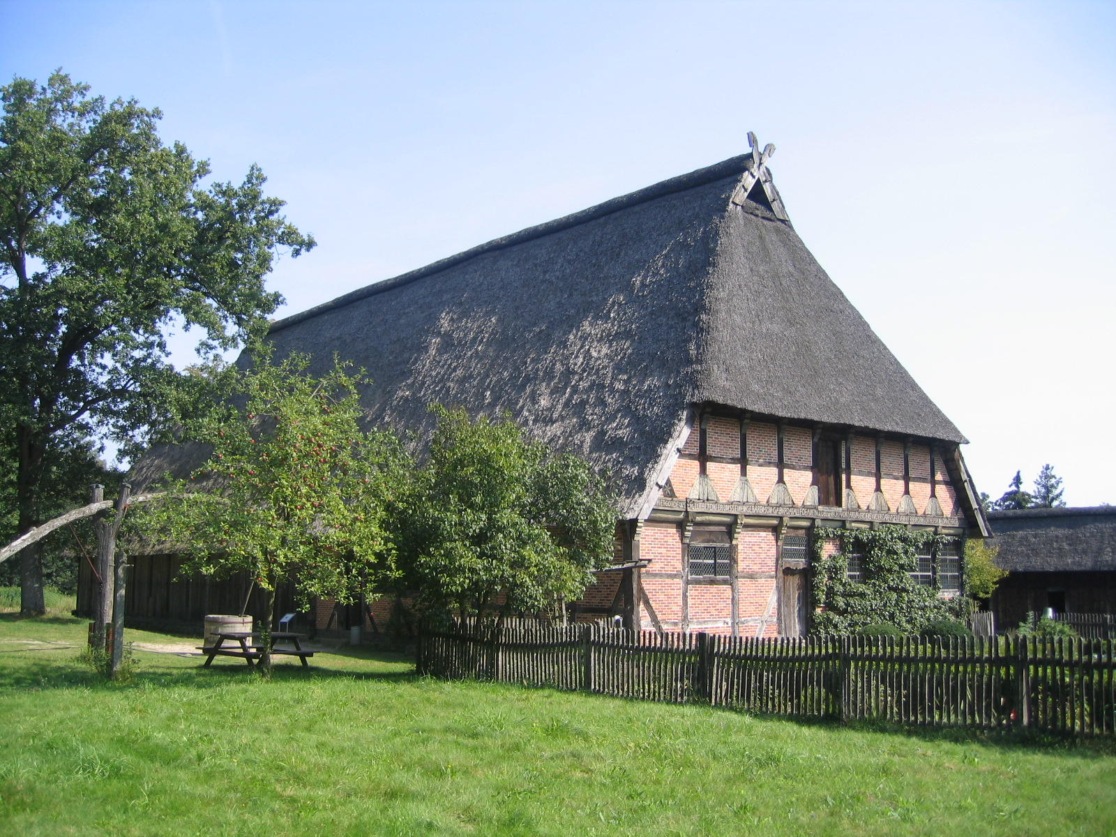 The Brümmerhof, a typical Lüneburg Heath farmhouse, at the Hösseringen Museum Village, nr. Uelzen, Lower Saxony, Germany.